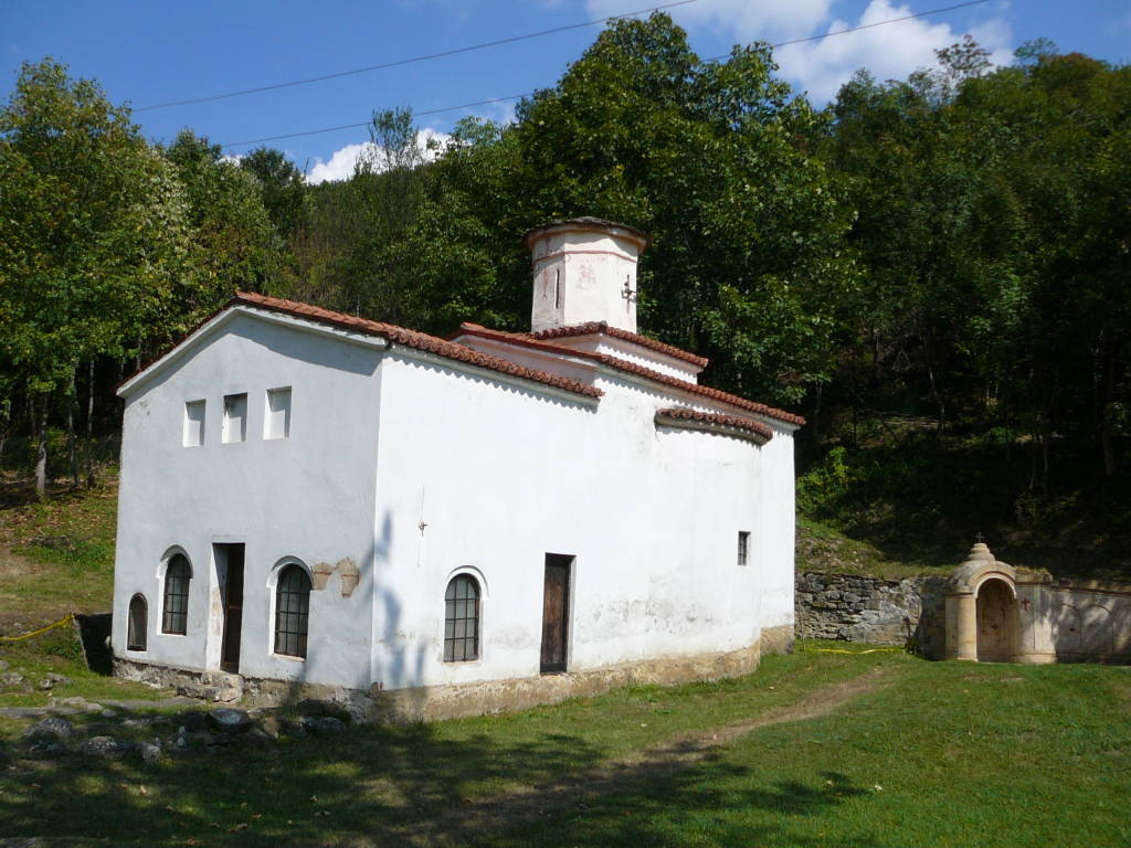 Church of the Holy Trinity in Gornja Kamenica, Serbia